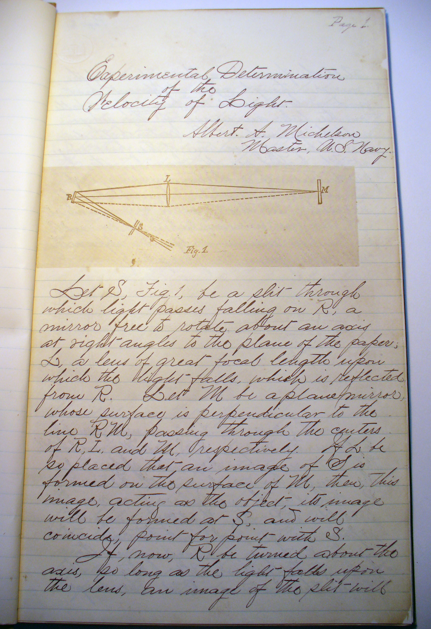 First page of Albert A. Michelson's handwritten draft paper on the velocity of light, during his time in the U.S. Navy. Source: Physics Dept, Case Western Reserve University